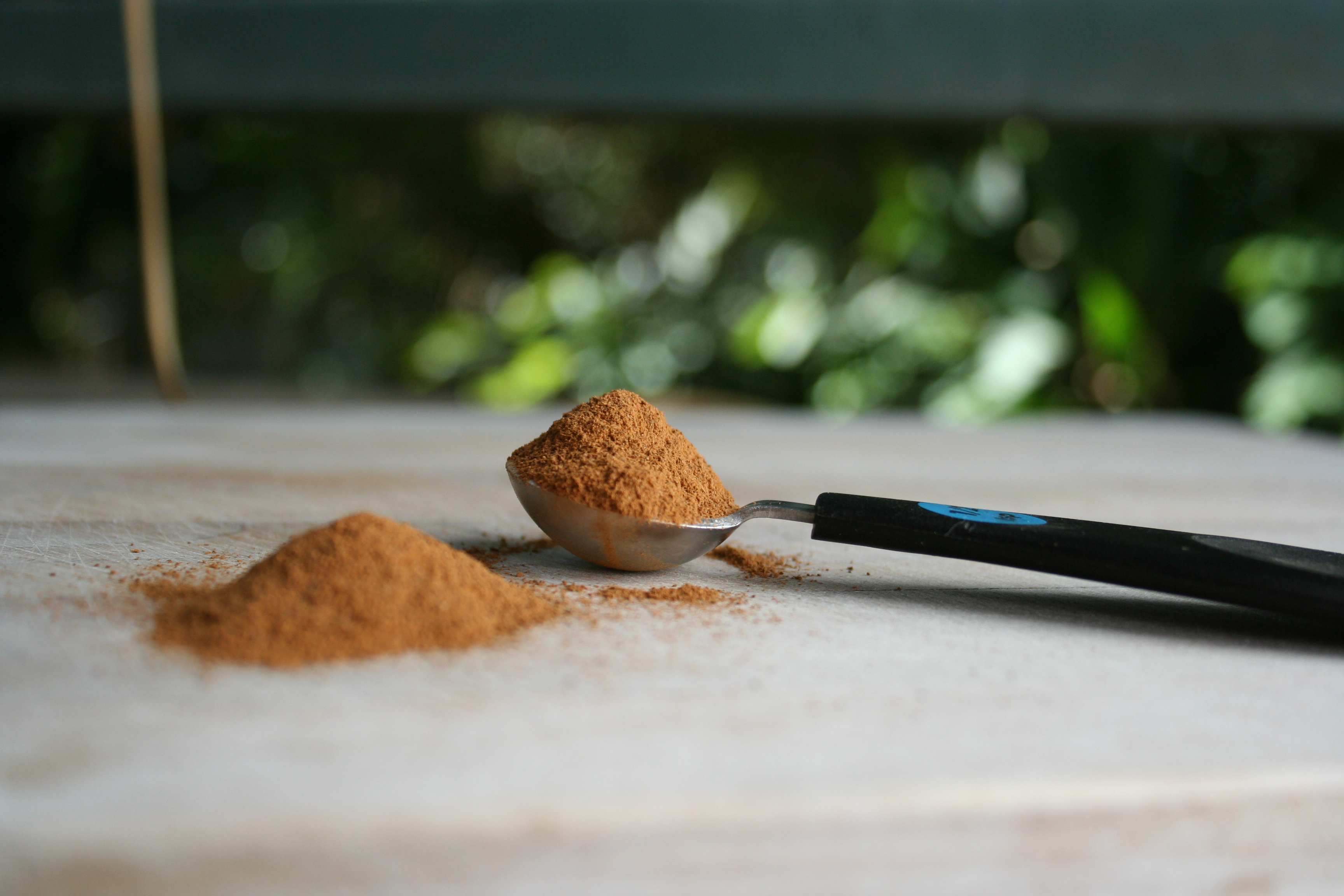 Ground cinnamon with measuring spoon